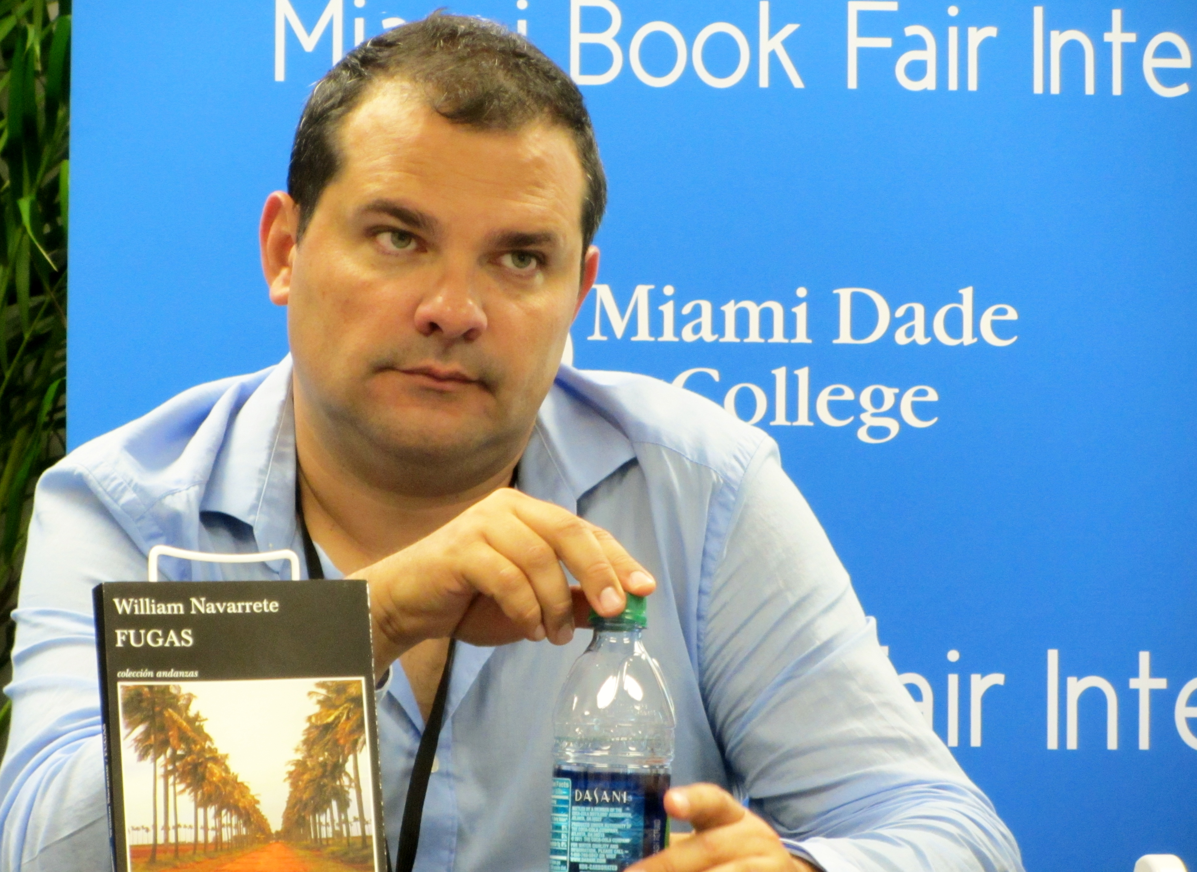 Cuban author William Navarrete at the Miami Book Fair International 2014